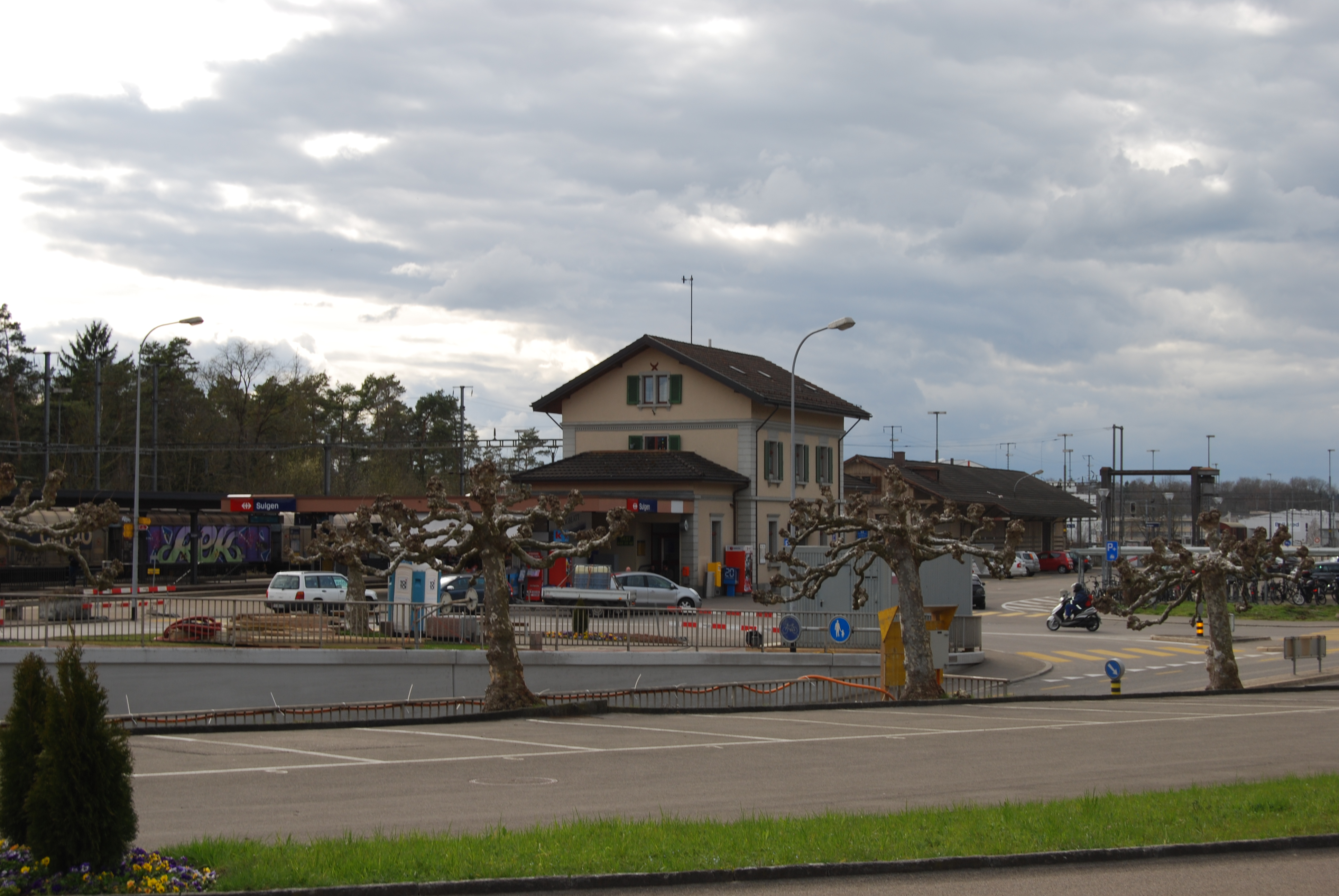 Trainstation of Sulgen, canton of Thurgovia, Switzerland